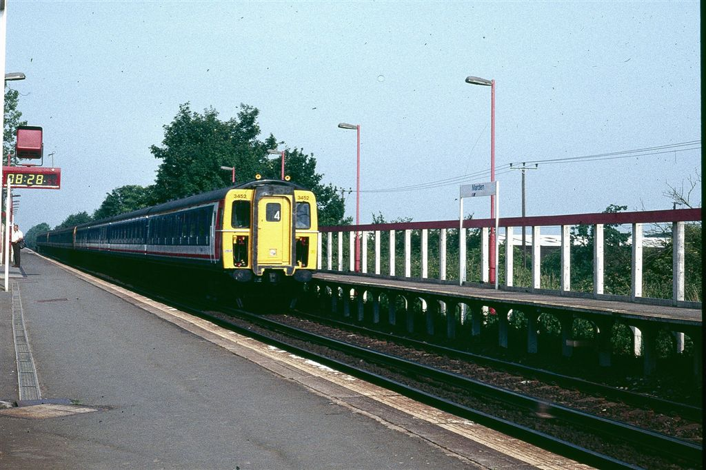 Network SouthEast Class 423 (4VEP) at Marden railway station